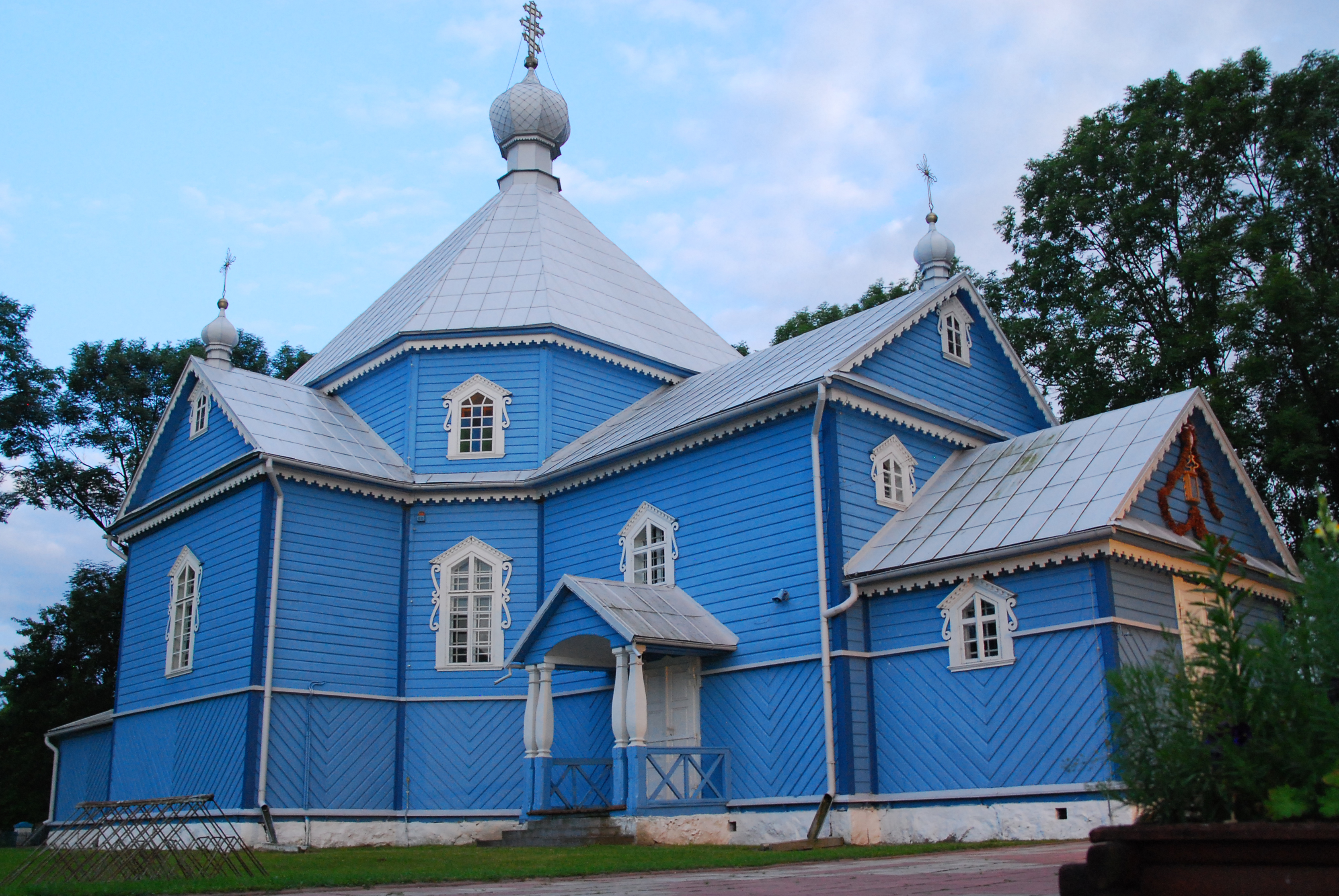 This photo from Podlaskie Voievodeship was taken during Polish Wikiexpedition 2009 set up by Wikimedia Polska Association. The making of this document was supported by Wikimedia Polska.